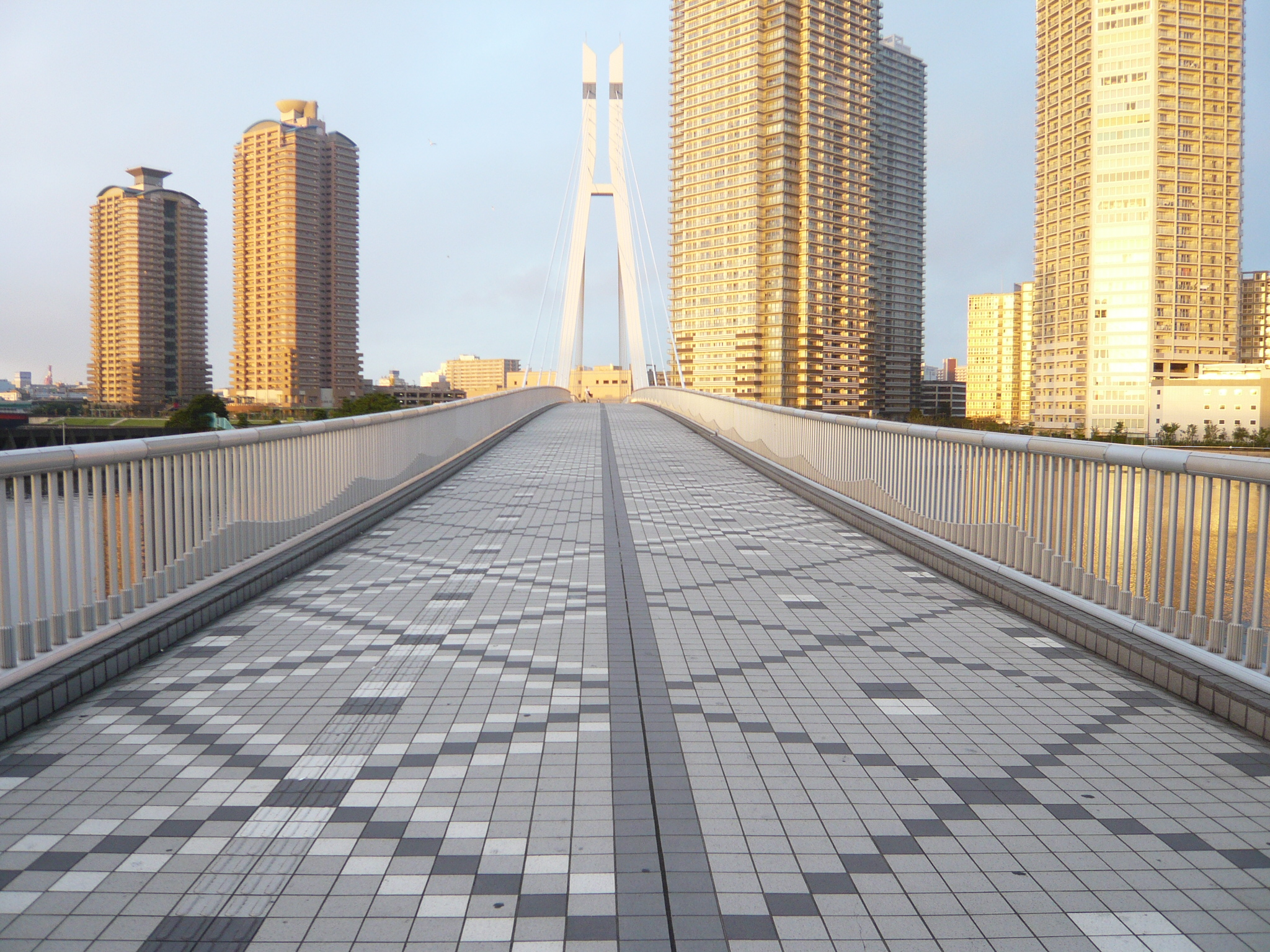 Tatsumi-Sakura Bridge in koto-ku, Tokyo, Japan.